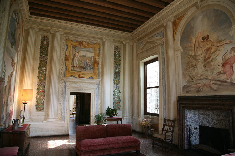 Villa Emo. The Hercules room is to the west of the hall. Hercules is mad with love and destroys himself with fire over the fireplace. Over the door Christ shows himself to Mary Magdalene after his ressurection. Frescoes by Giovanni Battista Zelotti.